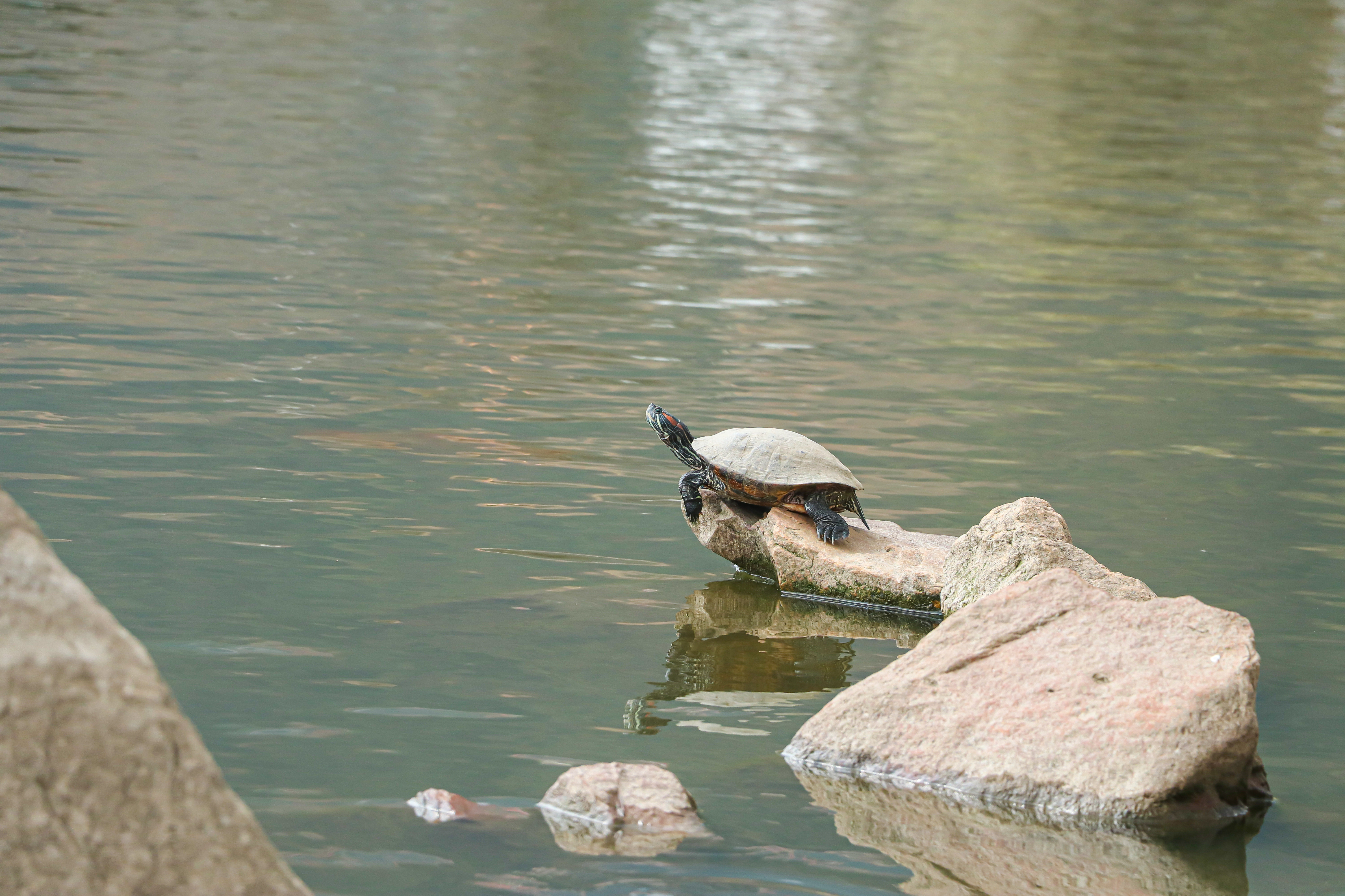 Red eared slider turtle at Taudaha, which is a non native species here in Nepal.